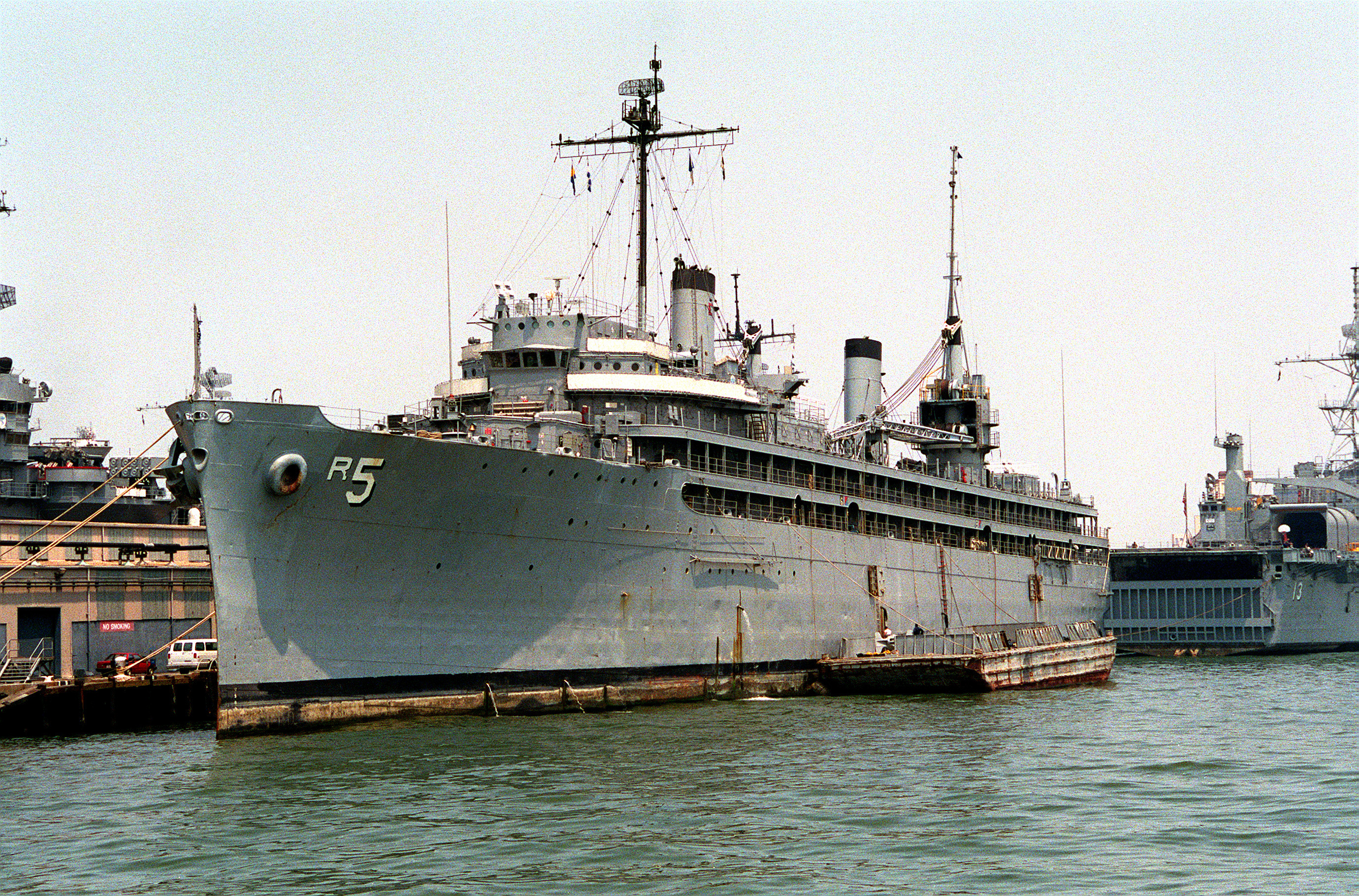 The U.S. Navy repair ship USS Vulcan (AR-5) tied up at pier 9 at Naval Station, Norfolk, Virginia (USA) on 29 June 1992. The Vulcan had returned to Norfolk following deployment in the Persian Gulf area during "Operation Desert Storm". Behind Vulcan lies USS Nashville (LPD-13), an Austin-class amphibious transport dock, on the opposite side of the pier lies an Iwo Jima-class helicopter carrier.